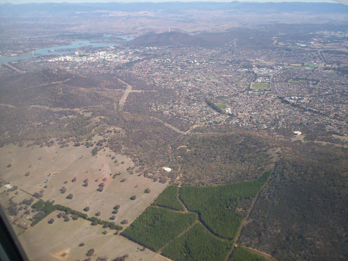 Photo of North Canberra, taken shortly after takeoff from Canberra airport. Lake Burley Griffin visible in the top left, along with Civic and Telstra Tower. There is a pine plantation behind Mount Majura below centre. I took this photo, August 2004.